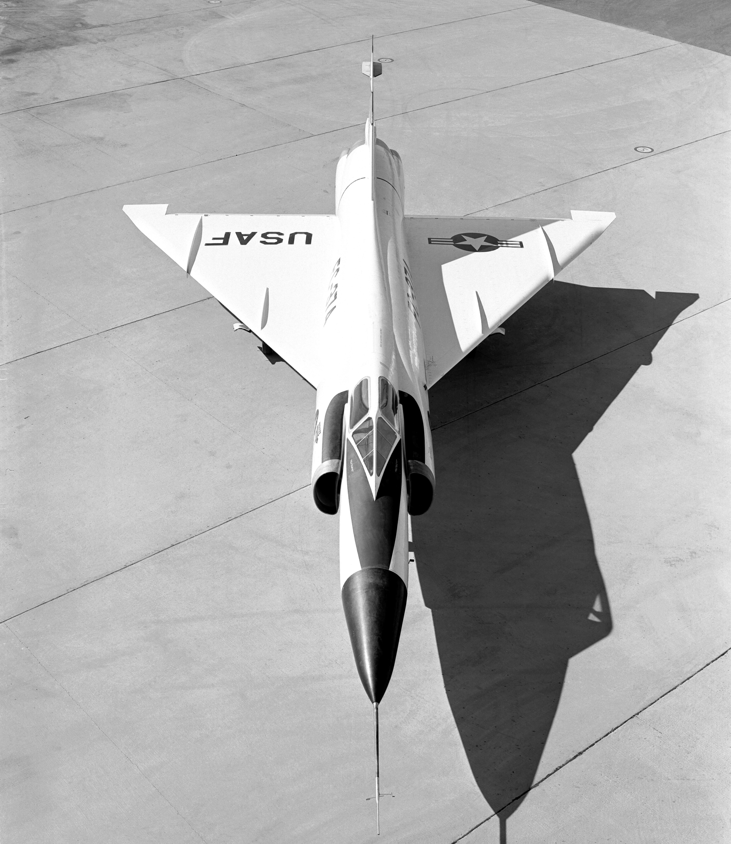 Convair F-102A-30-CO Delta Dagger 54-1374 (converted to JF-102A) on a ramp.